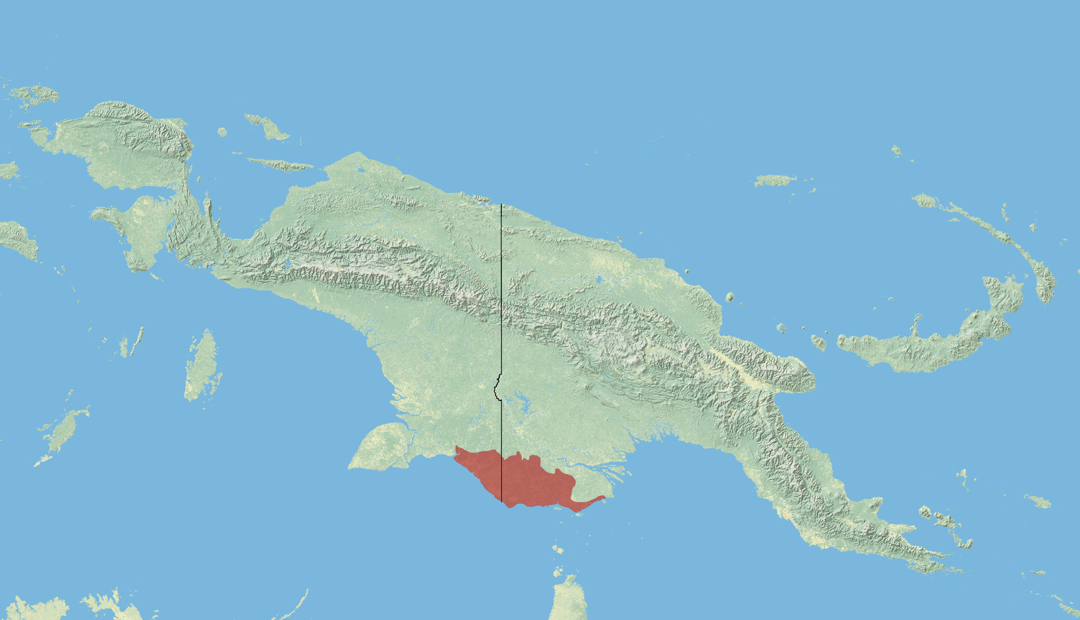 The Distribution of the Bronze Quoll According to the IUCN